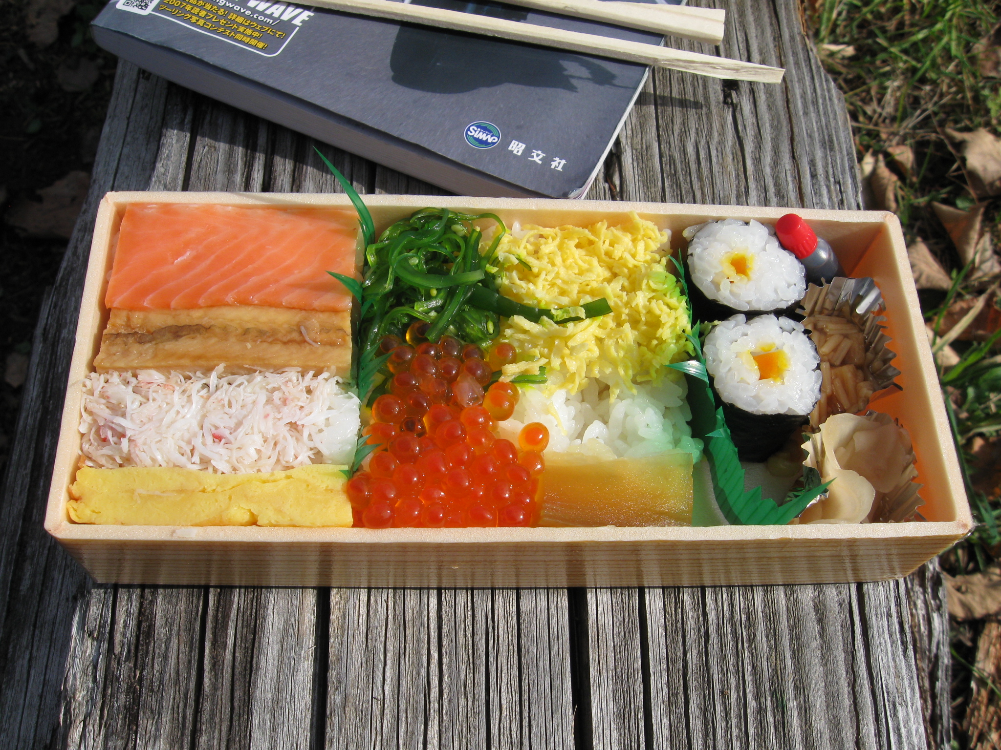 A bento lunchbox bought at Asahikawa station. On the left hand side is salmon, eel, shredded squid (?) and egg, all on a bed of rice. In the middle, seaweed, ikura (salmon roe) and a couple of unidentified substances, also on a bed of rice. On the right, a couple of pieces of sushi, a vial of soy sauce, gari (pickled ginger) and some unidentified bits. This was my lunch on Route 39 a few kms north of Sounkyo Gorge.